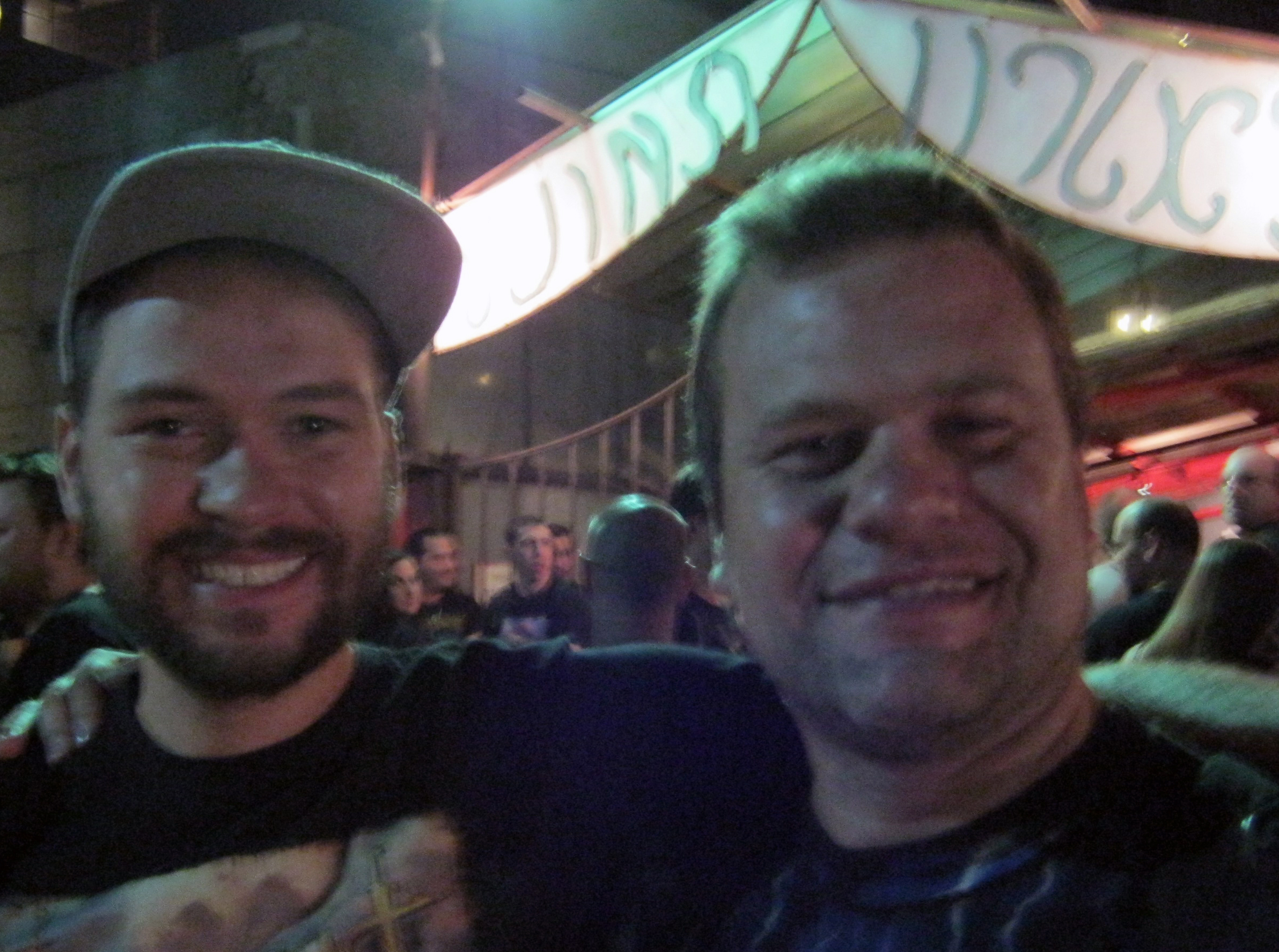 Vocalist and keyboardist of Israely Power Metal band Desert